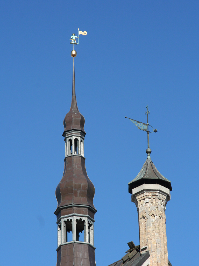 Photo of the Town Hall spire in Tallinn Estonia